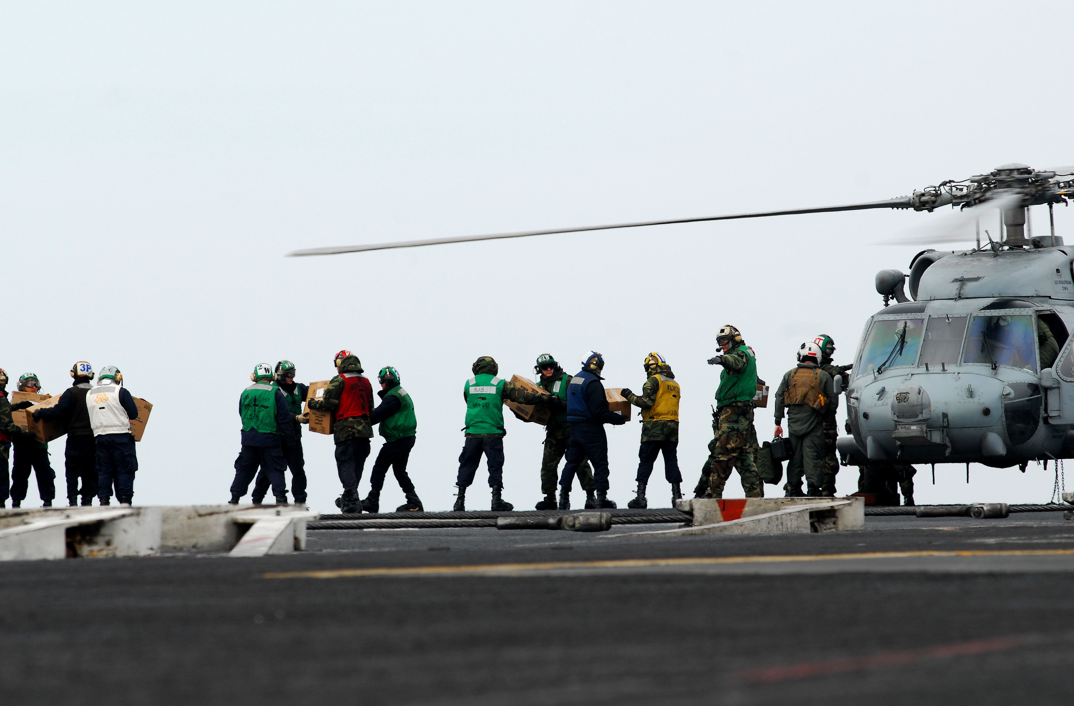 PACIFIC OCEAN (March 15, 2011) Sailors move food and water onto an HH-60H Sea Hawk helicopter assigned to the Black Knights of Anti-Submarine Squadron (HS) 4 aboard the aircraft carrier USS Ronald Reagan (CVN 76). Ronald Reagan is off the coast of Japan providing humanitarian assistance to Japan as directed in support of Operation Tomodachi. (U.S. Navy photo by Mass Communication Specialist Seaman Apprentice Michael Feddersen/Released)